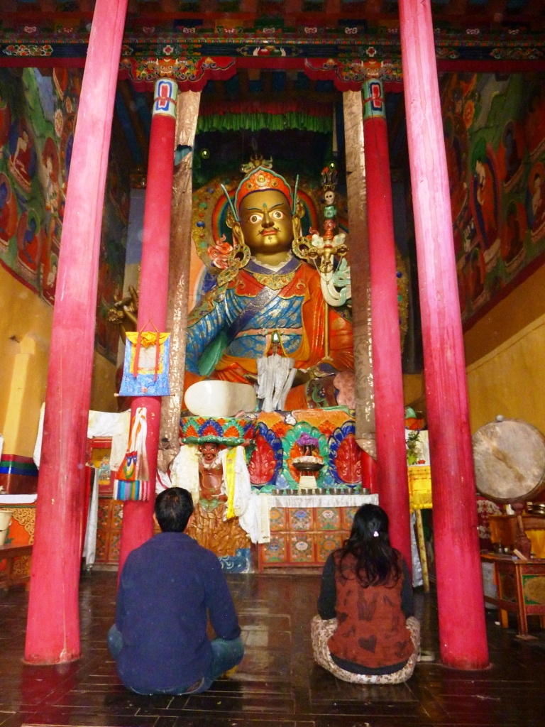 I took this photo when i visited hemis last year